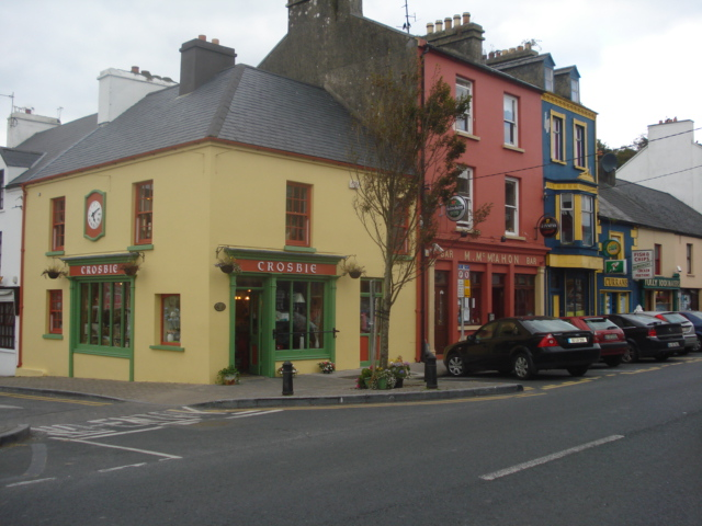 Main Street Ennistymon, County Clare